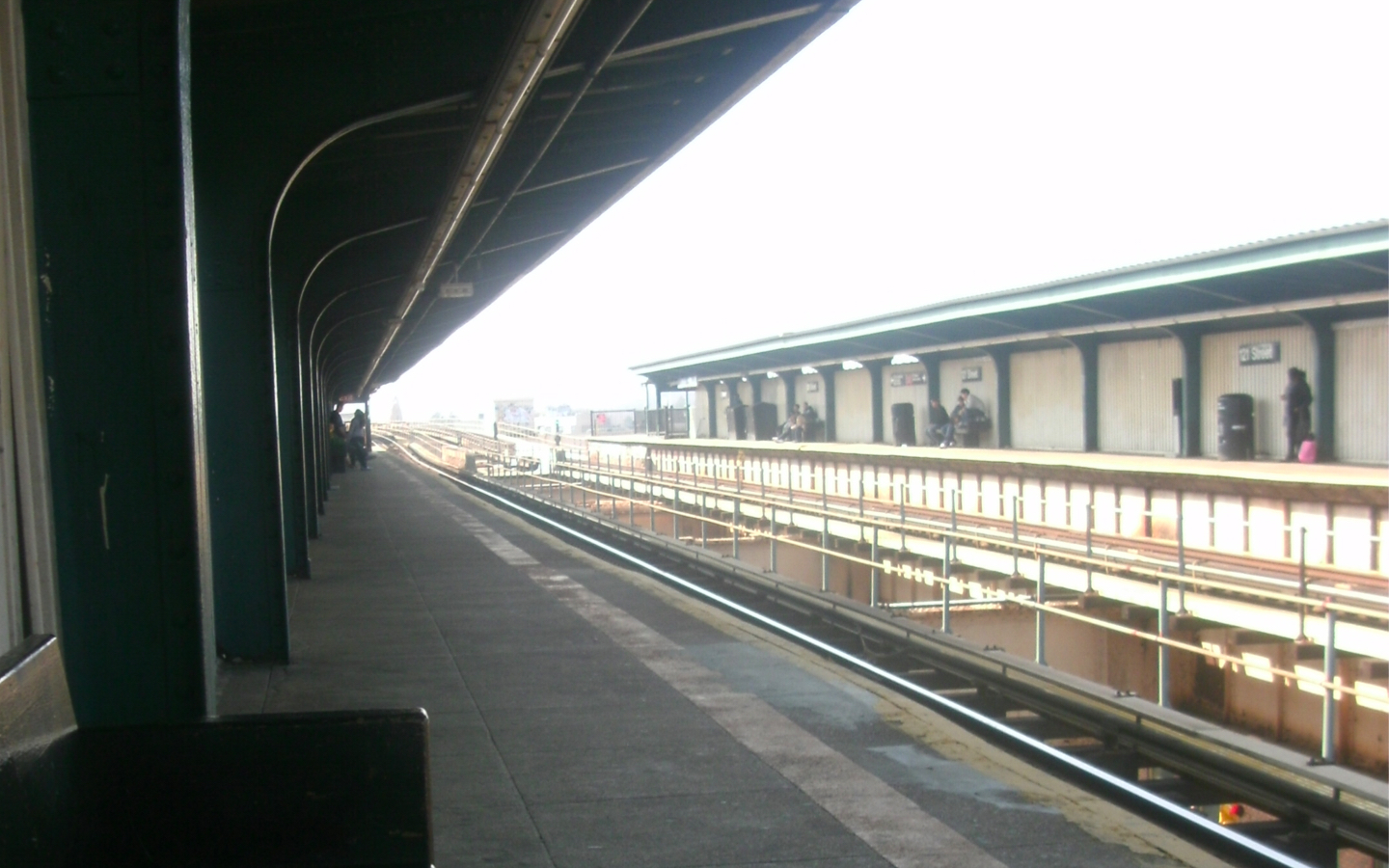 The 121st Street station on the former BMT Jamaica Elevated, currently served by the J/Z facing southbound.